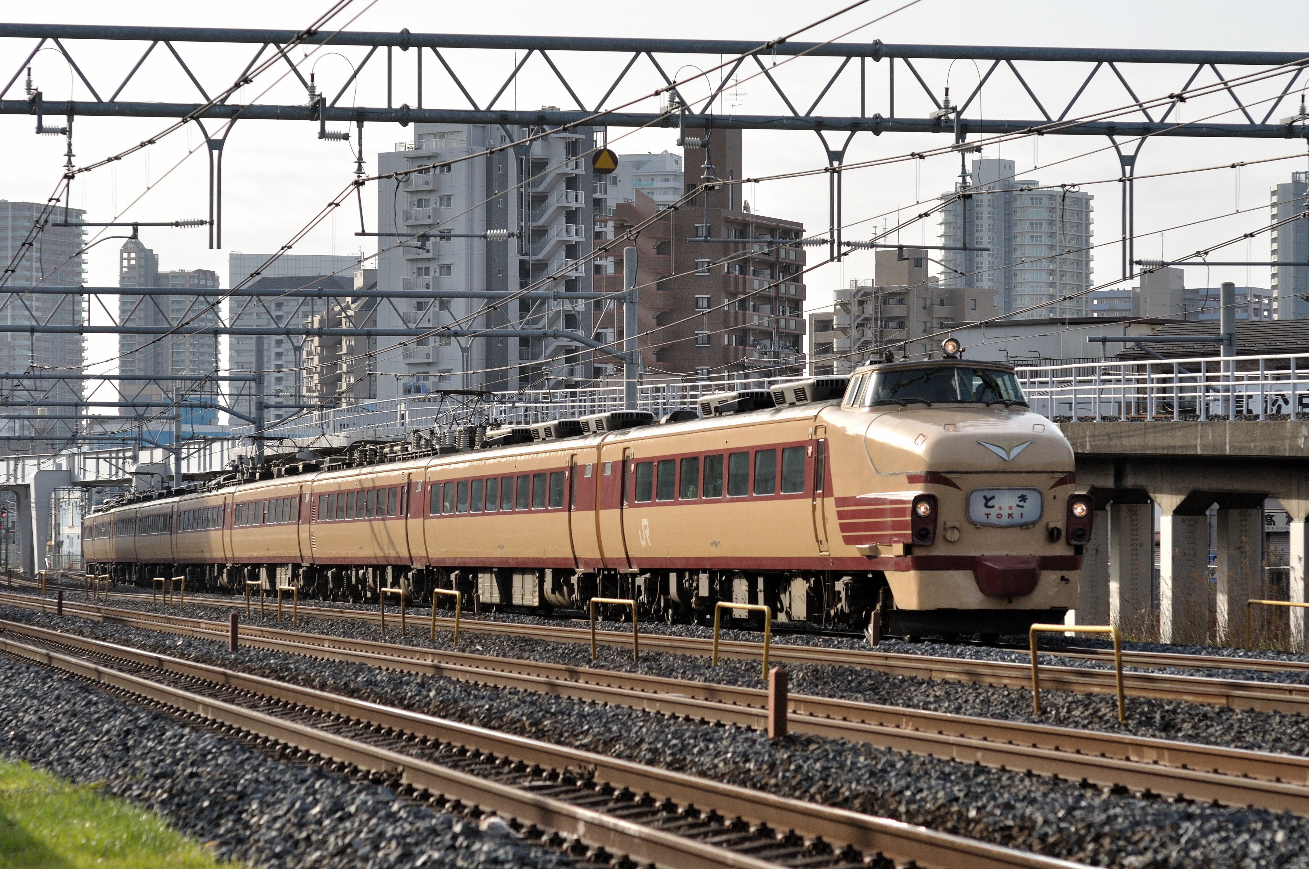 A JR West 489 series EMU on a special revival Toki service